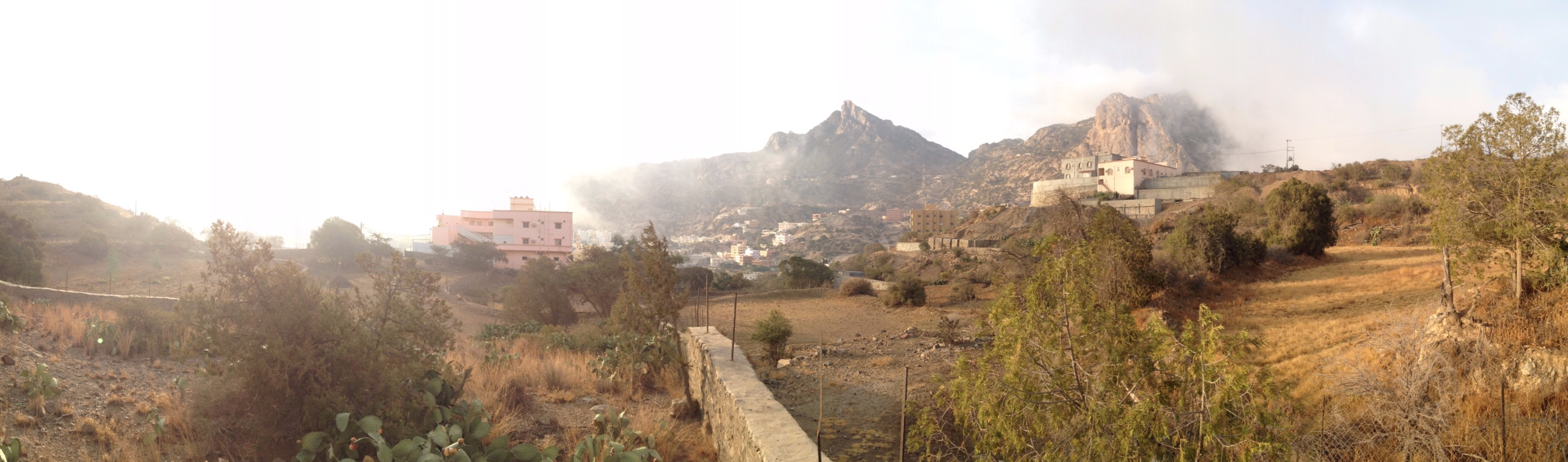 صورة بانوراما لجبل أثرب قبيلة حوالة